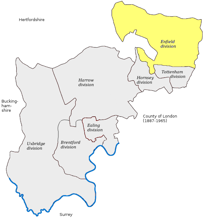 UK House of Commons seat Enfield created 1885, pre-1918 reduction in size to remove Edmonton and other parts.